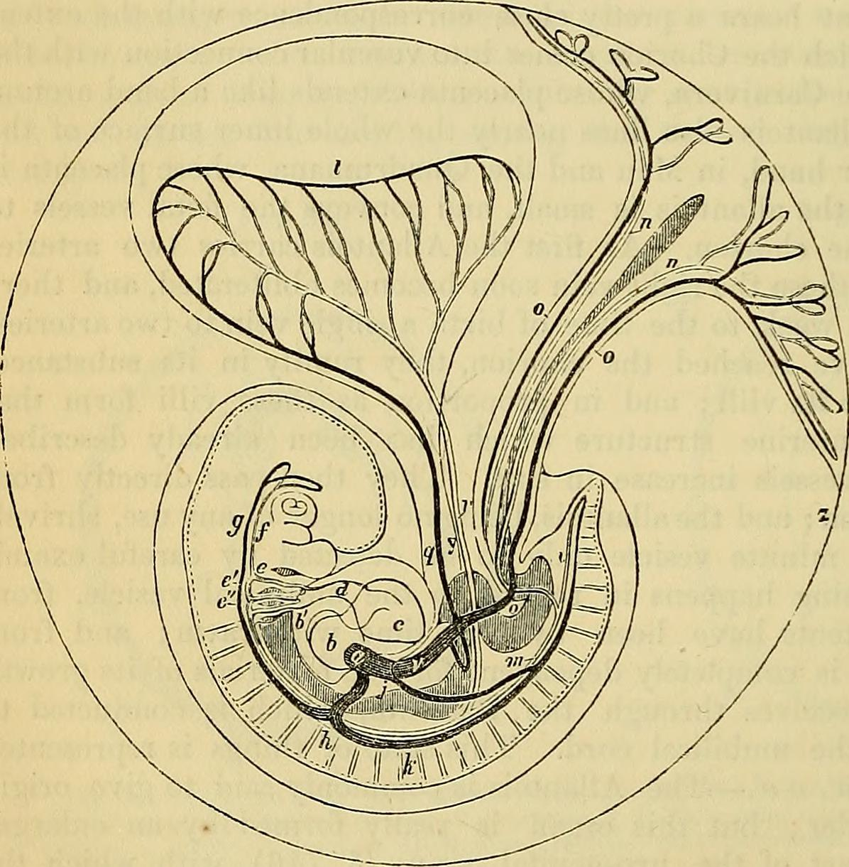 Title: Carpenter's principles of human physiology Year: 1881 (1880s) Authors: Carpenter, William Benjamin, 1813-1885 Meneses, Henry Power Subjects: Human physiology Physiology Publisher: London : J. & A. Churchill Text Appearing Before Image: riod of preg-nancy it contains in addition, glycogen, traces of the bile salts, and urea. Likethe Allantois it possesses a contractile power, owing to the unstriated musclewhich it obtains from the somatopleure. During the first two months ofgestation, the amnion and the inner lining of the chorion (which is really thereflected layer of the amnion, Fig. 347, h, just as the lining of the abdominalcavity is formed by the peritoneum) are separated by a gelatinous-lookingsubstance ; which probably aids in the nutrition of the embryo, previously tothe formation of the placenta. This is absorbed during the second month;and the amnion is then found immediately beneath the chorion.—In theUmbilical Cord, when it is completely formed, the following parts may betraced. 1. The tubular sheath afforded by the Amnion. 2. The UmbilicalVesicle (Fig. 348, t), with its pedicle, or vitelline duct. 3. The VasaOmphalo-Mesaraica (g, r), or mesenteric vessels of the embryo, by which the Fig. 348. Fig. 349. Text Appearing After Image: '